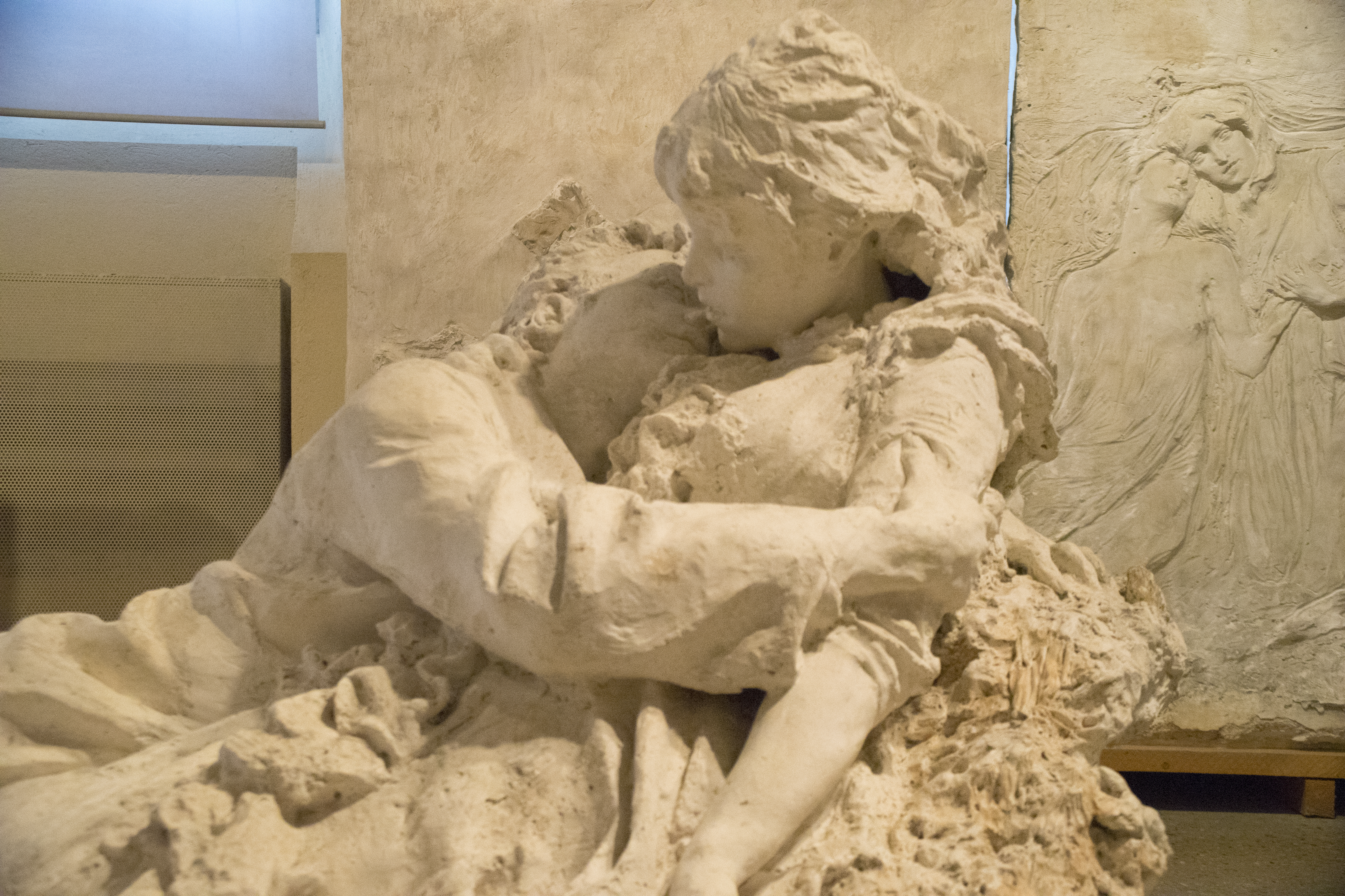 This is a photo of a monument which is part of cultural heritage of Italy.